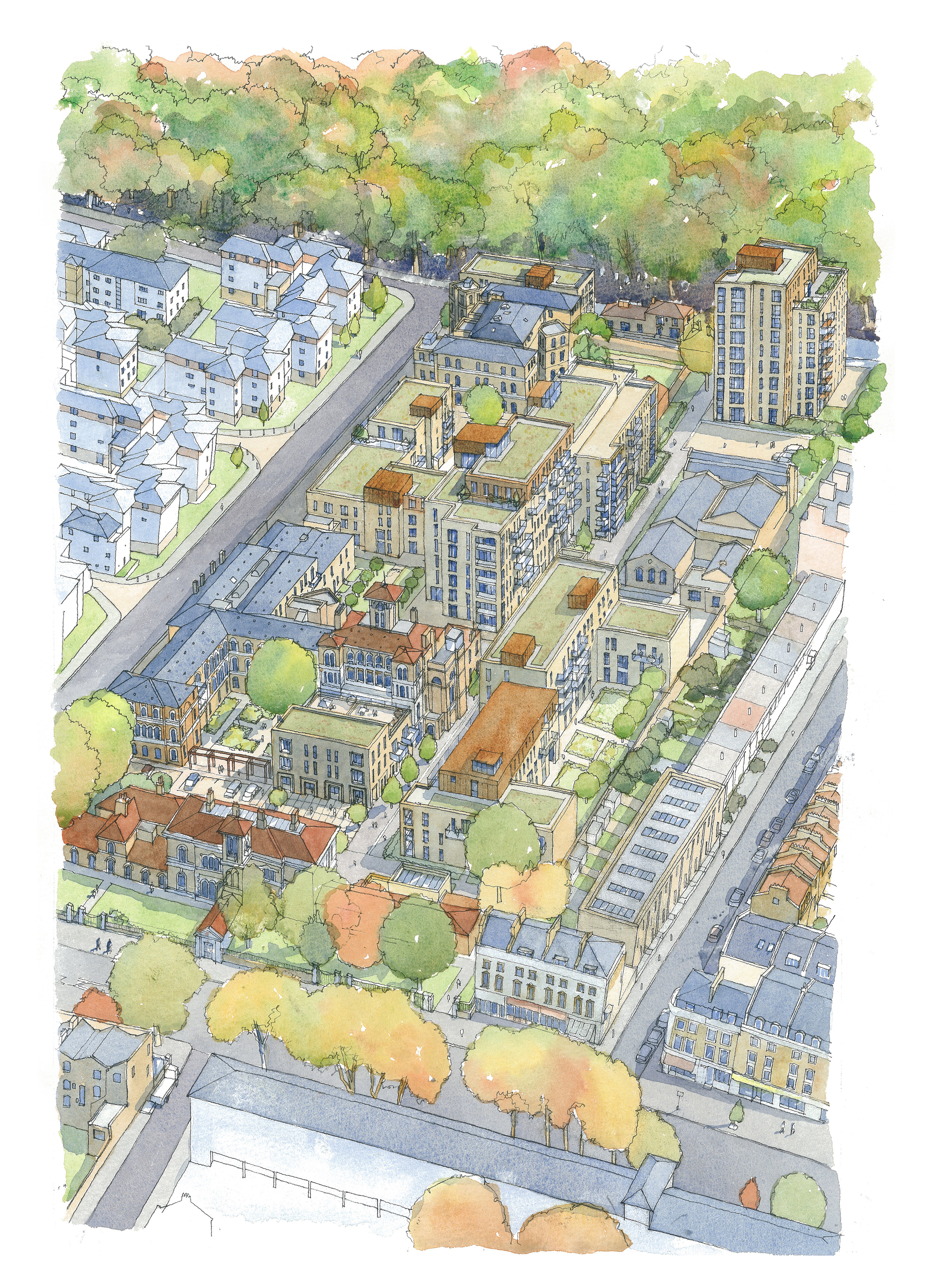 A watercolour vignette drawing by JTP of the masterplan for St Clement's, Mile End, a residential project which includes London's first Community Land Trust. This Vision was developed during the extensive Community Planning Process in 2013.